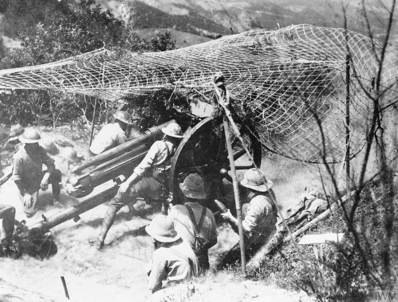 BRITISH FORCES IN THE SALONIKA CAMPAIGN 1915-1918 British 18-pdr field gun firing from a camouflaged position on the Doiran Front. Comment : This illustrates the gun barrel and recuperator piston in the full recoil position immediately after firing.